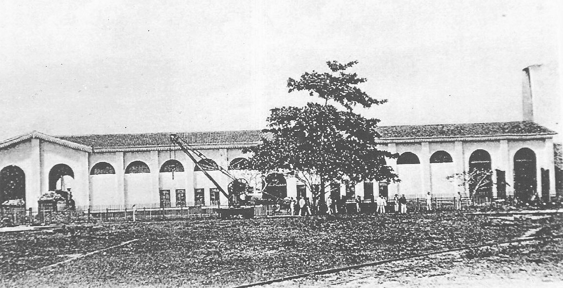 Camocim Train Station Office.